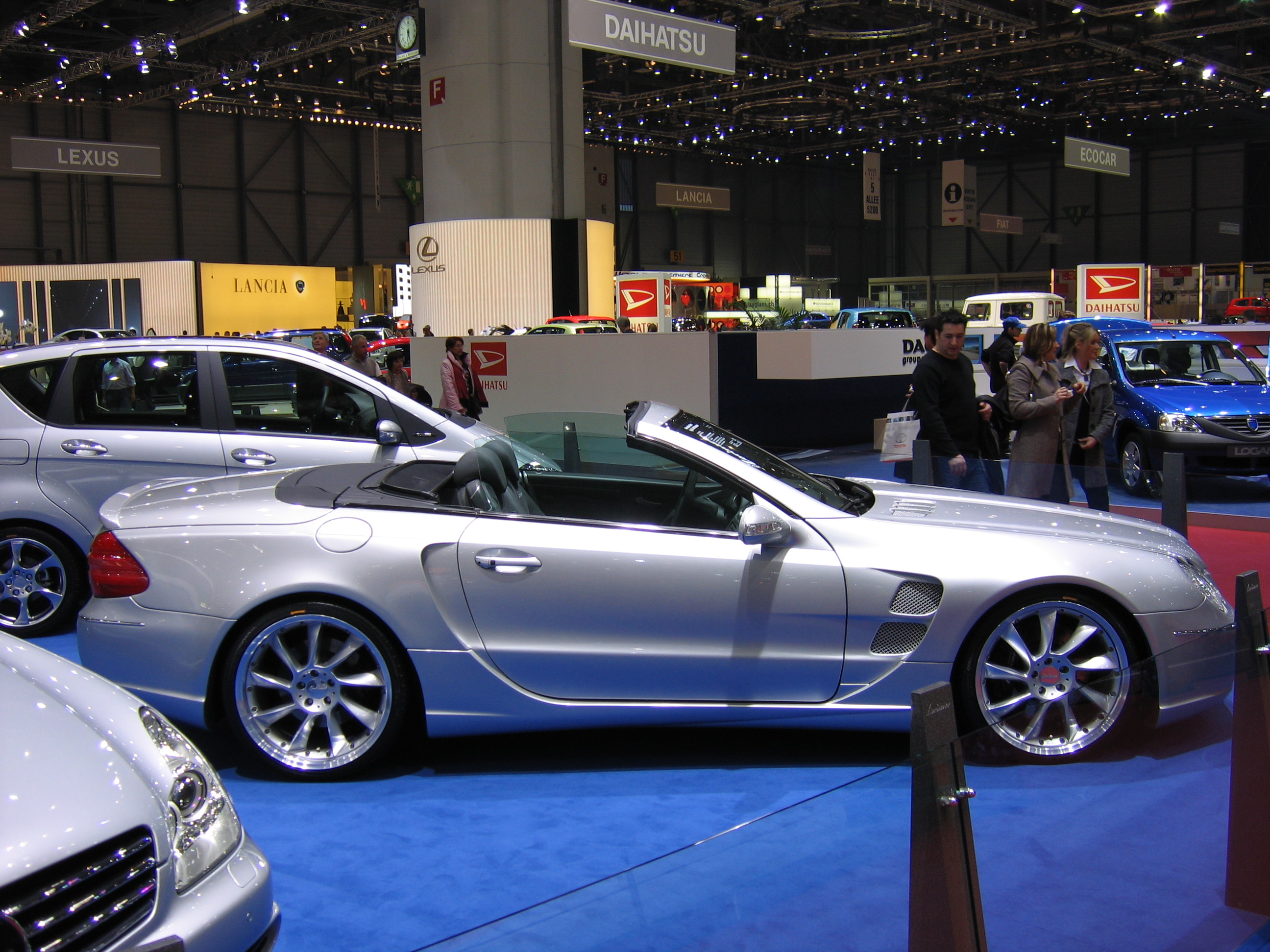 Geneva Motor Show 2005